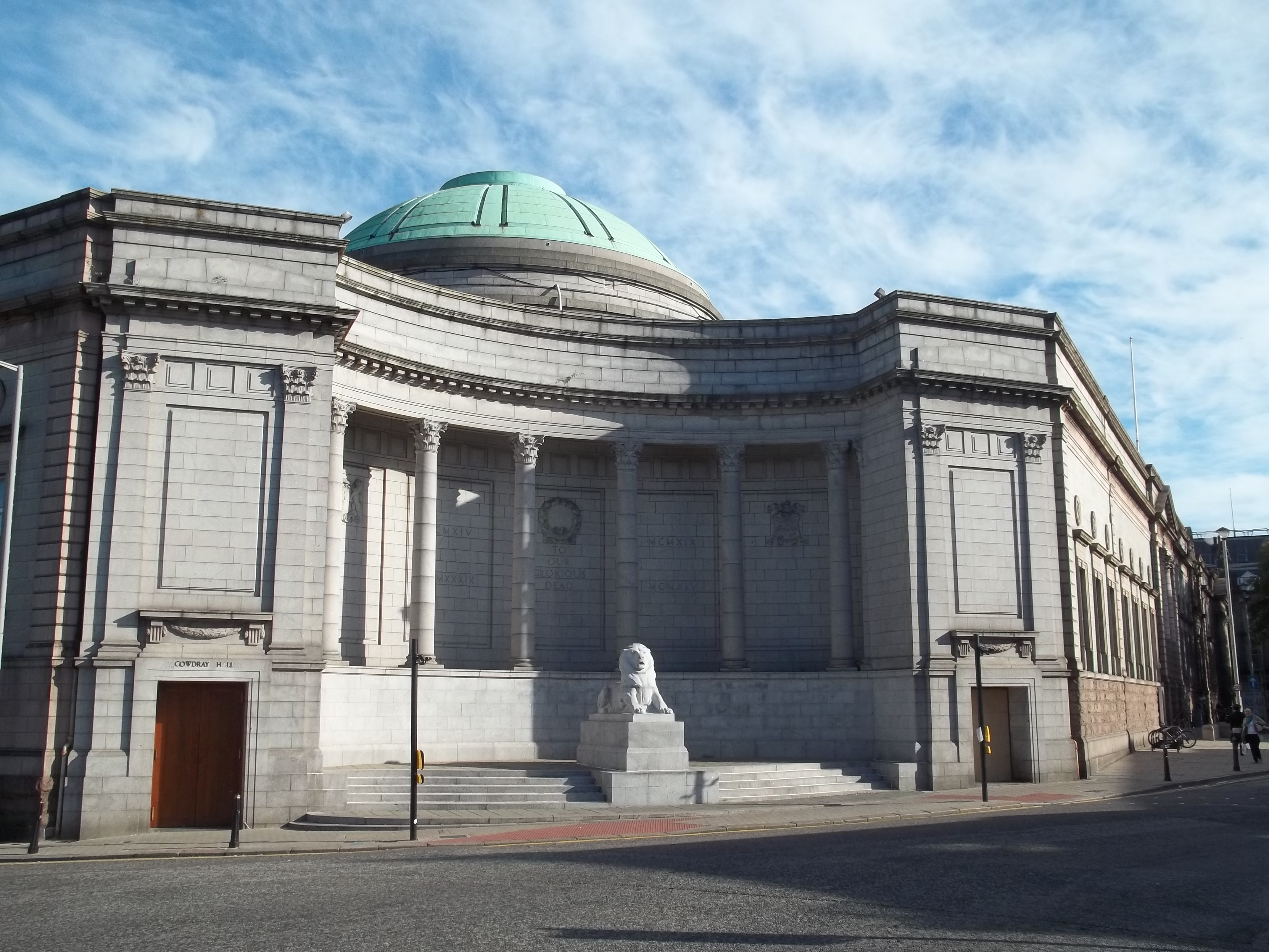 The Cowdray Hall, Aberdeen